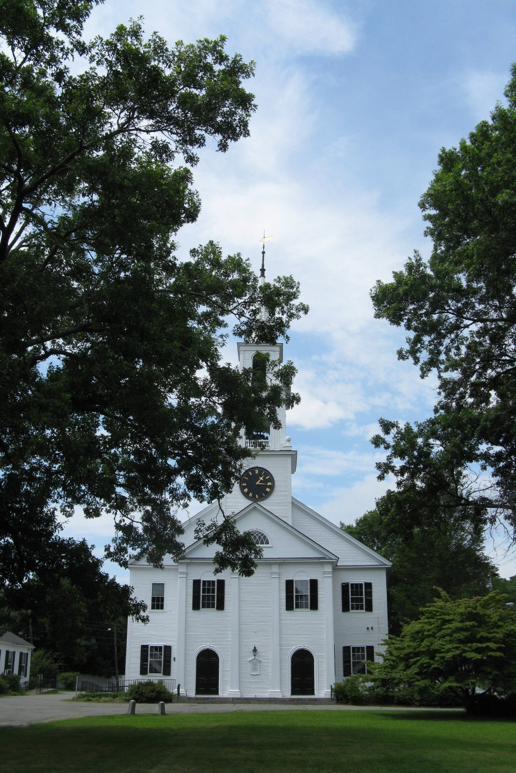 First Church and Parish in Dedham Massachusetts